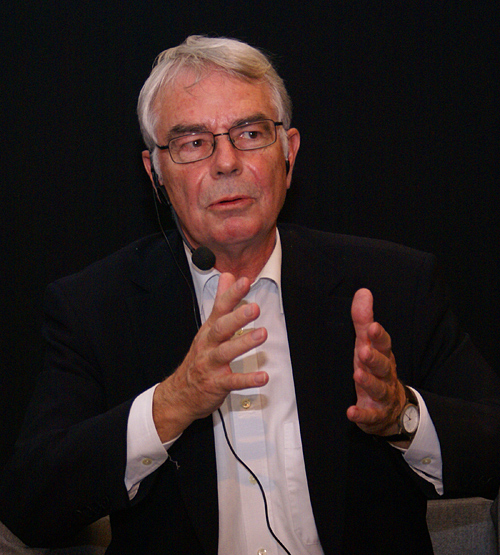 Jørn Lund, Danish language researcher.